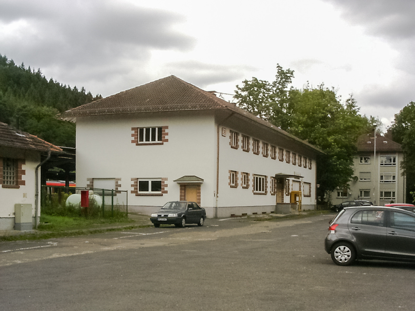 Main building of Pirmasens Nord train station, street side